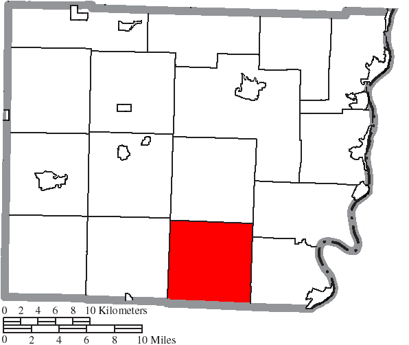 Map of the municipal and township boundaries of Belmont County, Ohio, United States, as of the 2000 census, with the location of Washington Township highlighted. Township borders are shown only in unincorporated areas in order to differentiate incorporated and unincorporated areas more clearly.